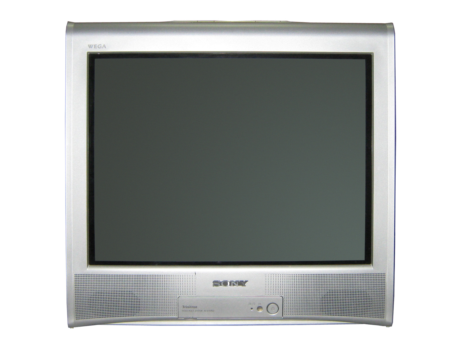 Sony FD Triniton (Model: KV-BZ213N50). 21 inch WEGA 2.0 CRT TV.